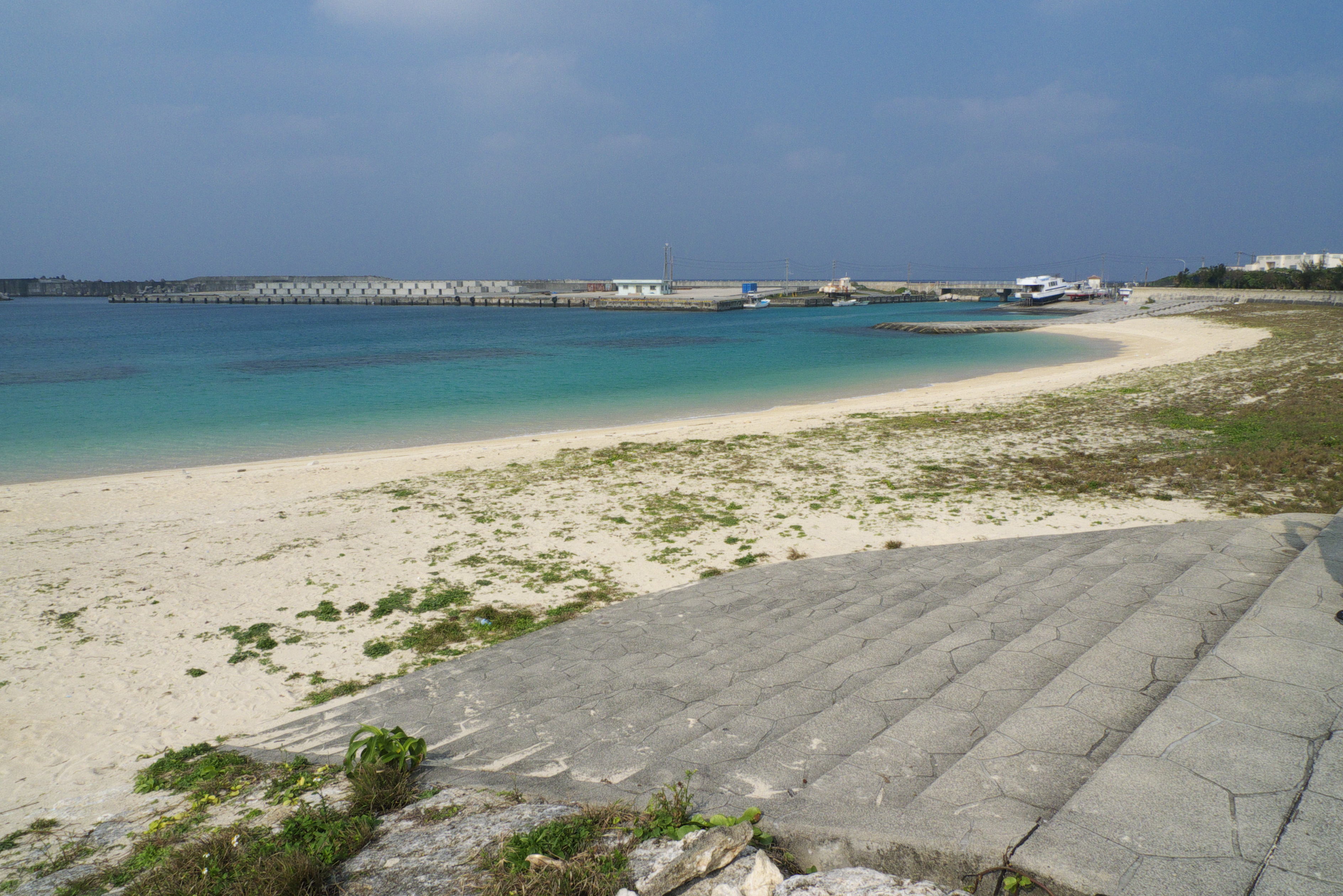 Nanta Beach (Nanta-hama) and Port of Sonai in Yonaguni Island, Okinawa Prefecture, Japan